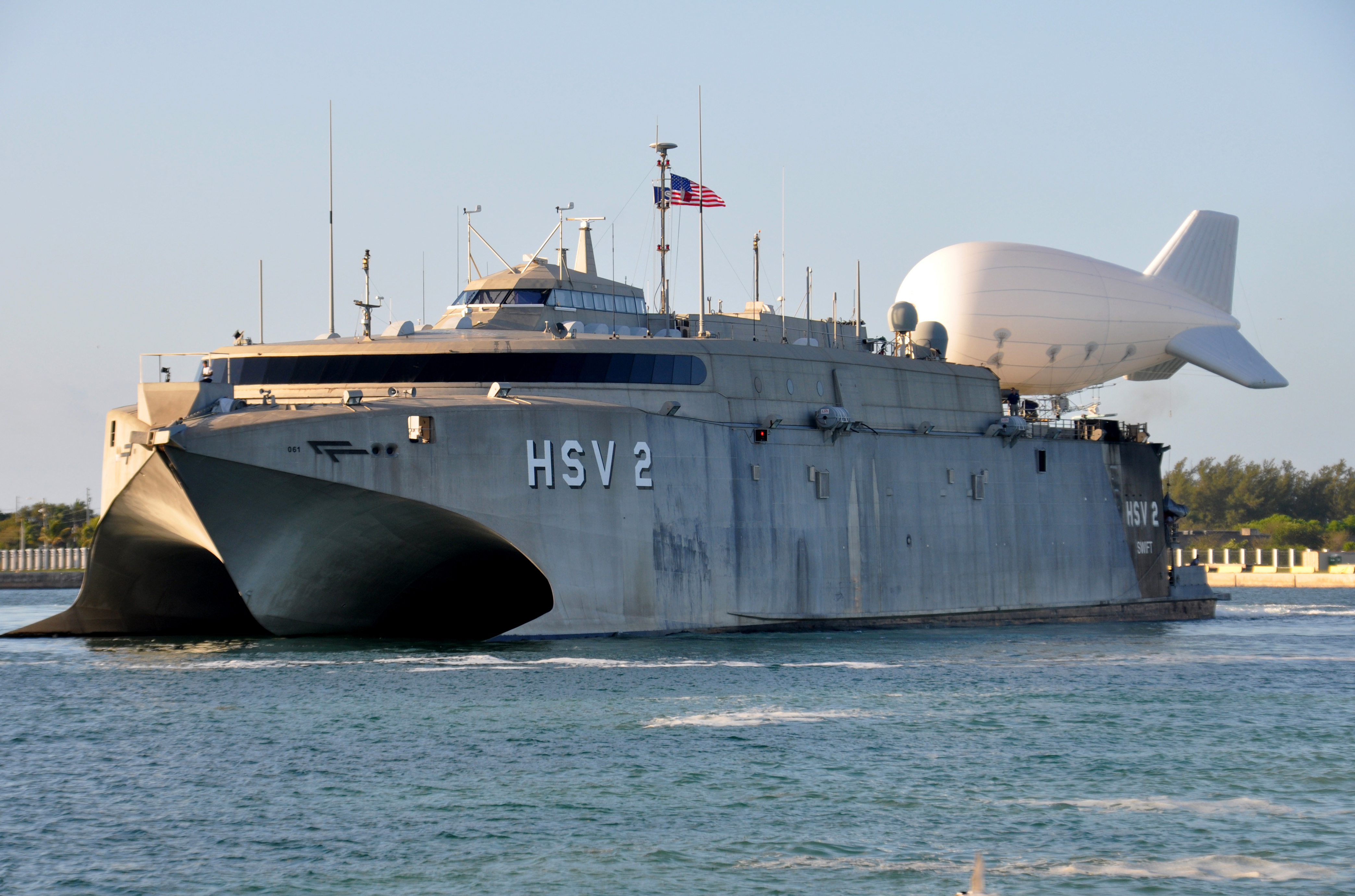 The High-Speed Vessel Swift (HSV-2) gets underway with a tethered TIF-25K Aerostat balloon in Key West, Fla., on April 24, 2013. The crew of the Swift will conduct a series of capabilities tests to determine if the Aerostat could participate in Operation Martillo, a joint, interagency and multinational collaborative effort to deny transnational criminal organizations air and maritime access to the littoral regions of the Central American isthmus.